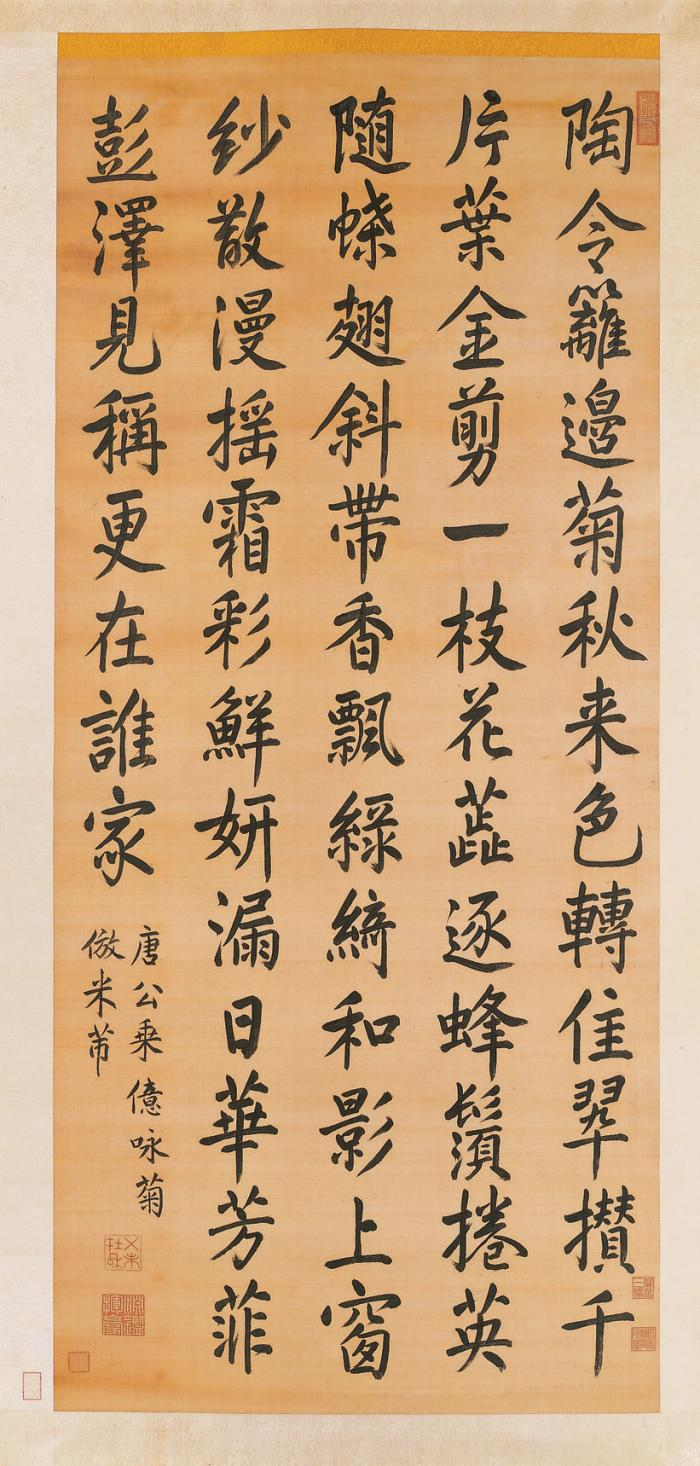 A Tang poem in praise of chrysanthemums, written in the standard running script in the style of Mi Fu, 1703, by the Kangxi Emperor (1654—1722). Hanging scroll, ink on silk. 186.5×83.5 cm. The Palace Museum, Beijing.